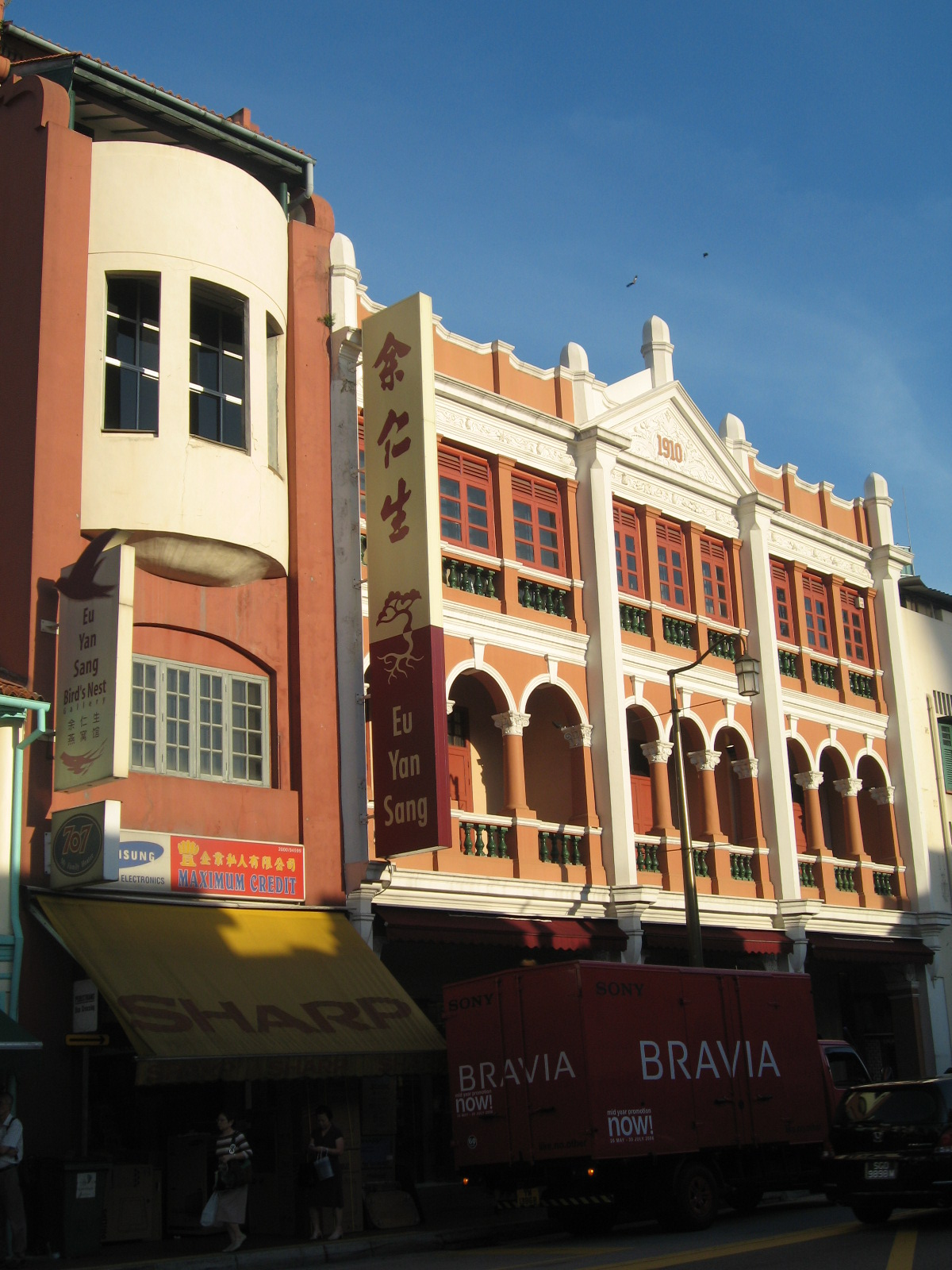 Eu Yan Sang building, Chinatown.